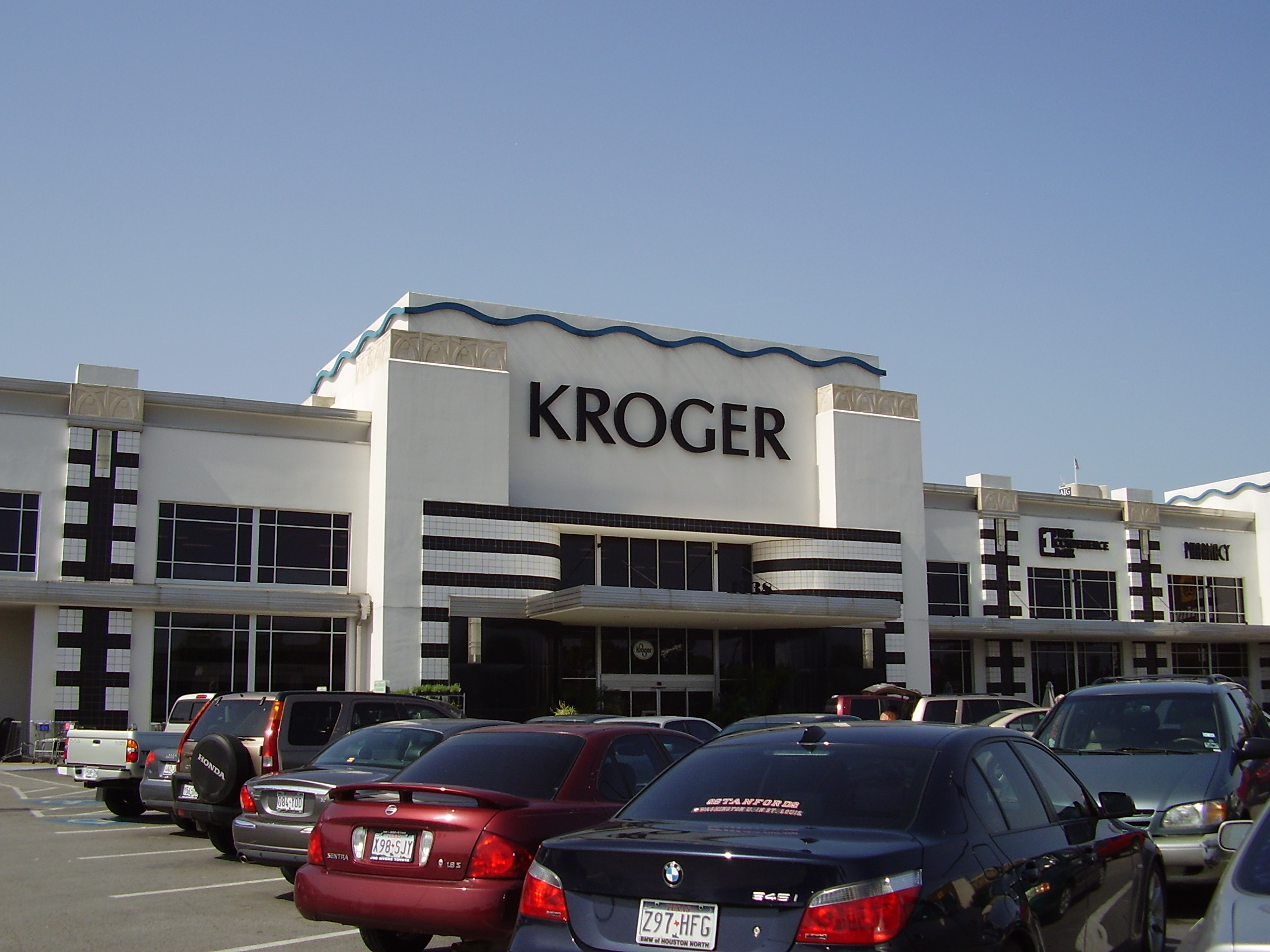 Kroger - River Oaks Shopping Center - 1938 West Gray